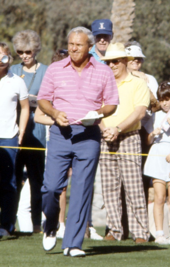 The great one, Arnie Palmer, was the leading pro playing that day at the course we were on. I was glad to have a chance to see him. He was a very gracious gentleman.